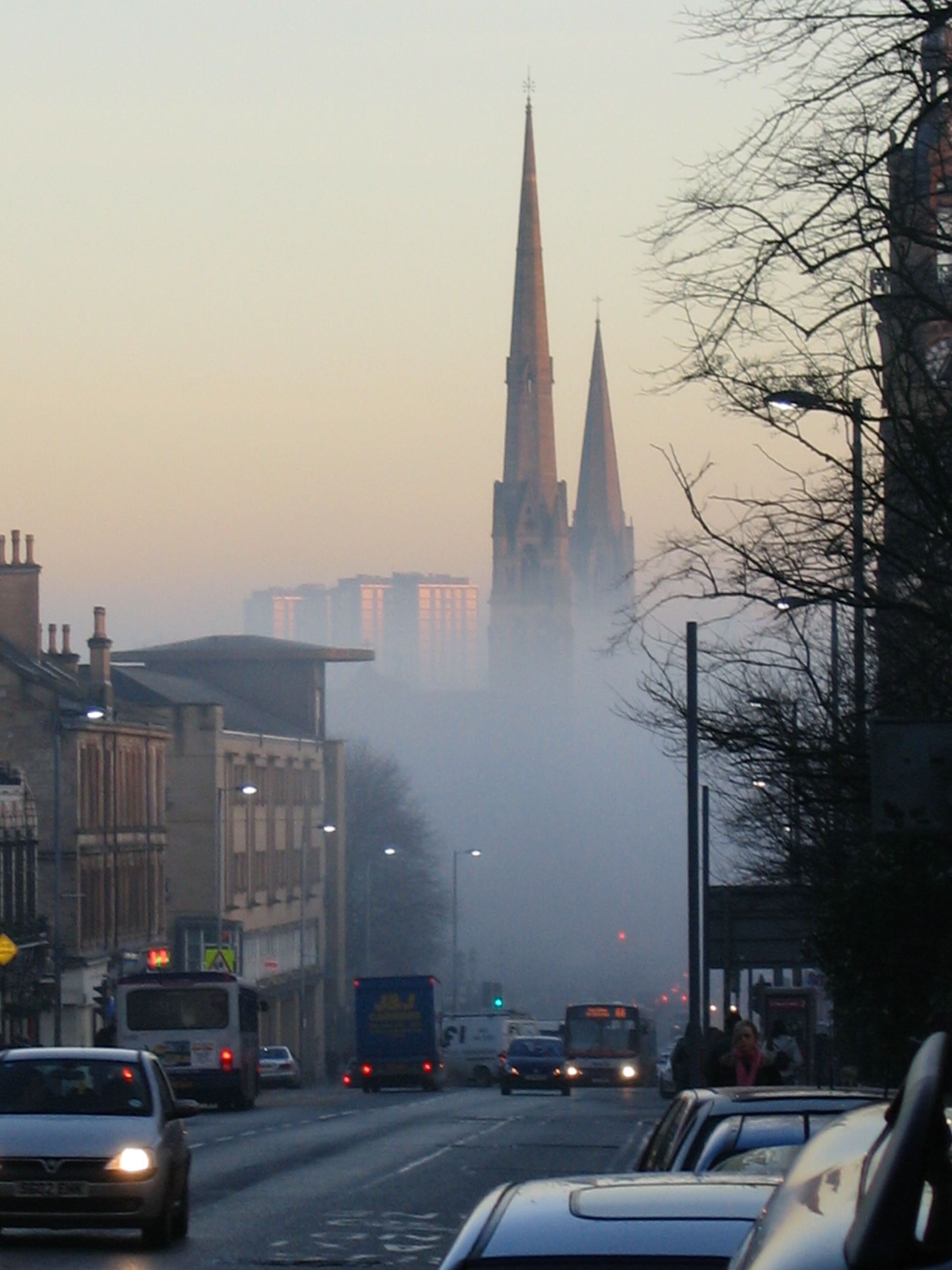 Lansdowne Church and St Mary's Cathedral rising through fog on Great Western Road